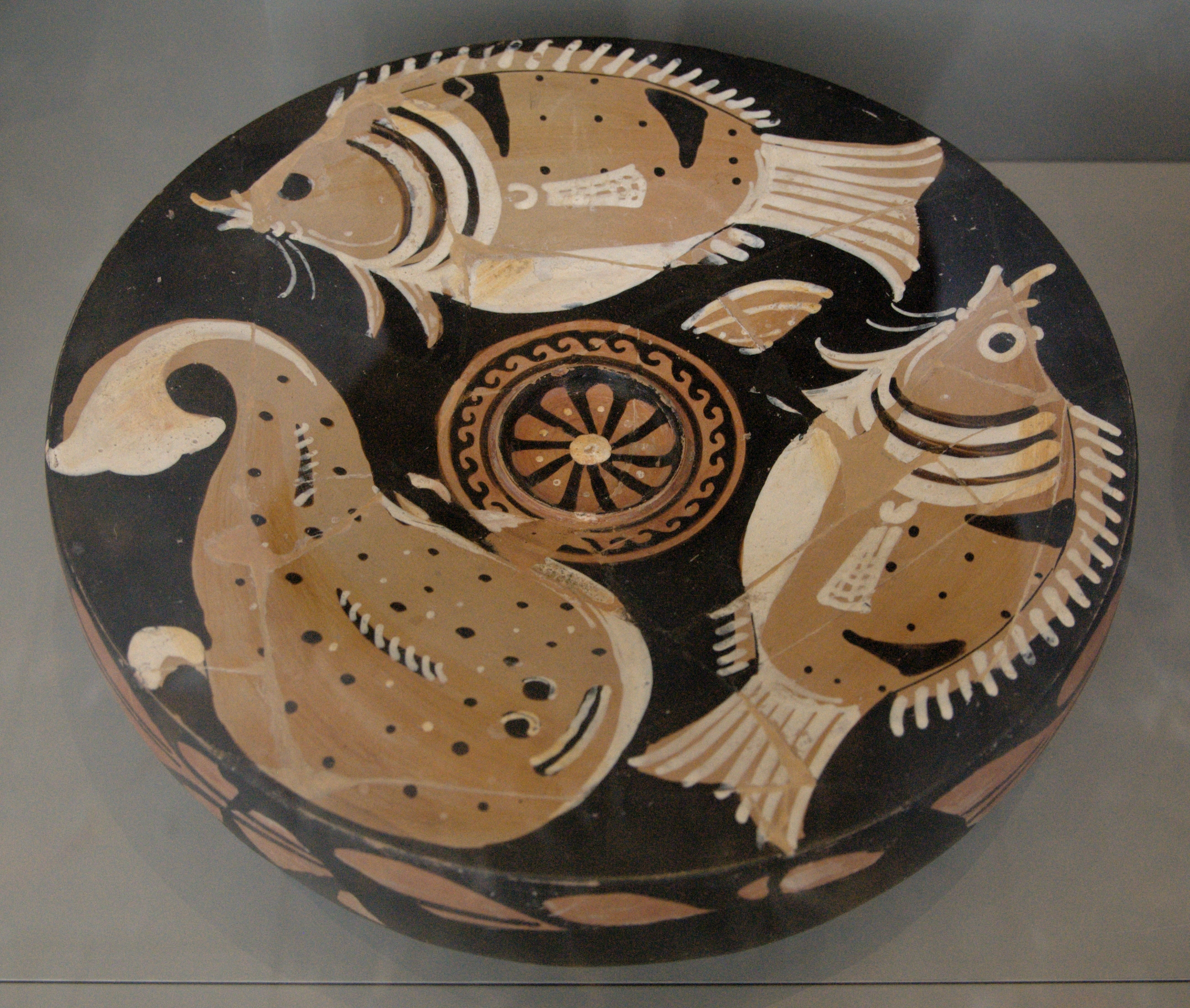 Apulian red-figure fish plate, ca. 340 BC.